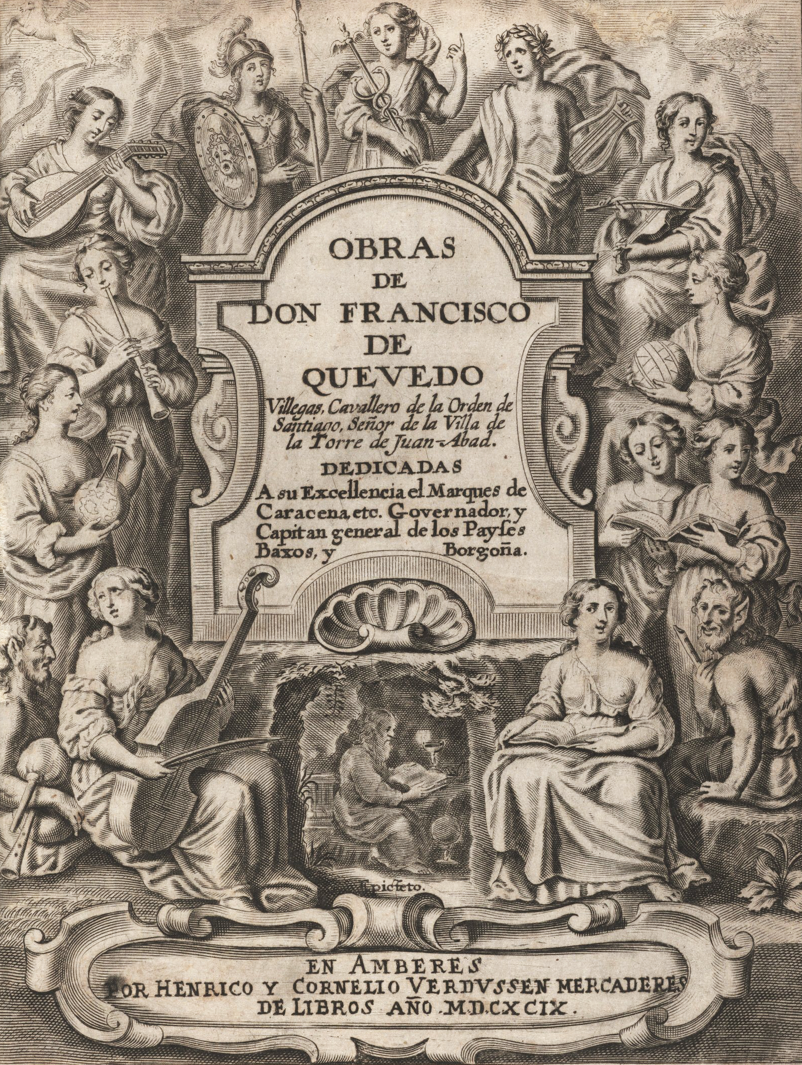 Title page, Obras de don Francisco de Quevedo Villegas, 1699, by Francisco de Quevedo (edited by Don Pedro Aldrete Quevedo y Villegas). Span 5305.1.3, Houghton Library, Harvard University